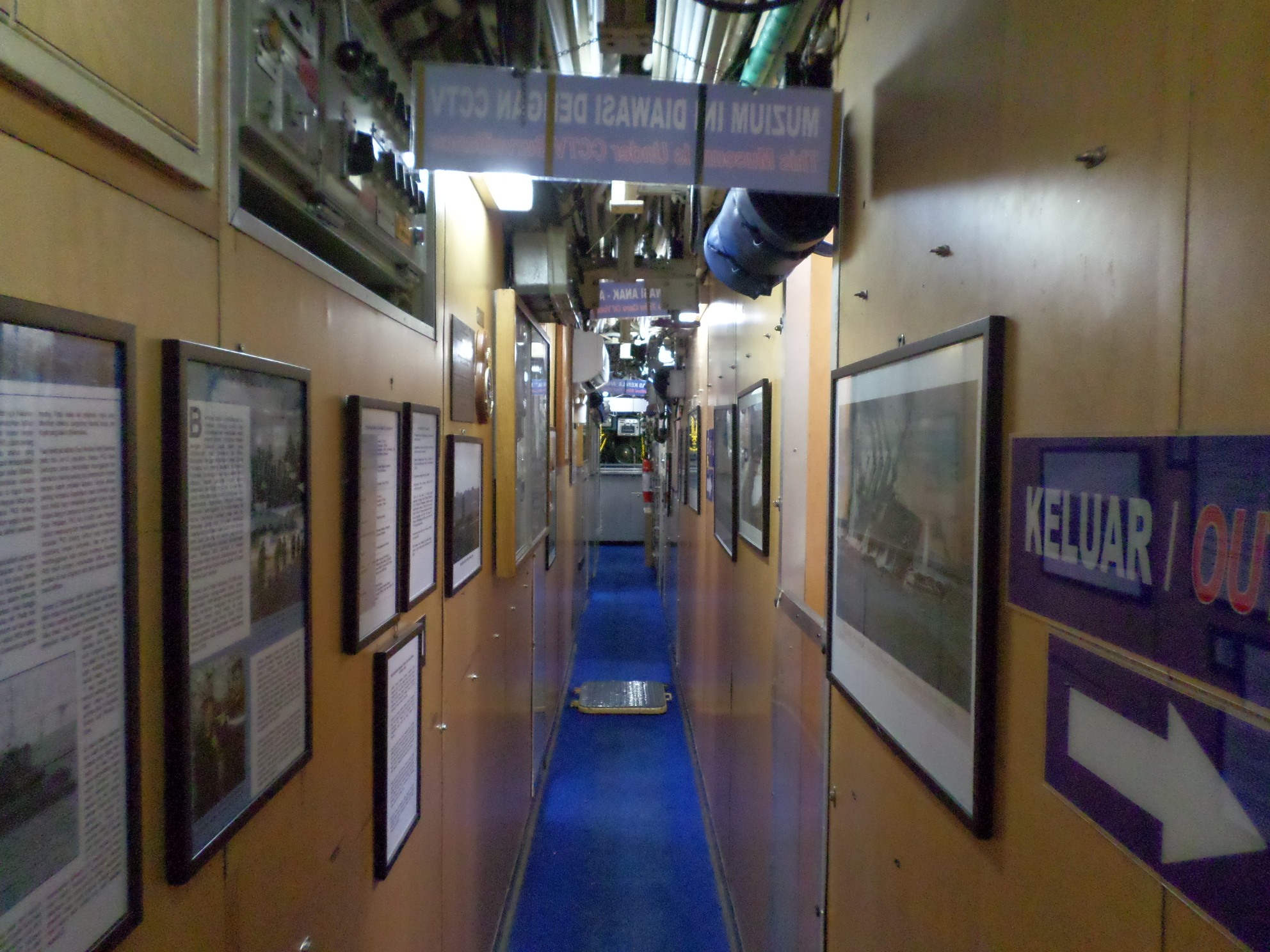 Submarine Museum, Klebang, Malacca, MalaysiaBahasa Melayu: Muzium Kapal Selam, Klebang, Melaka, Malaysia